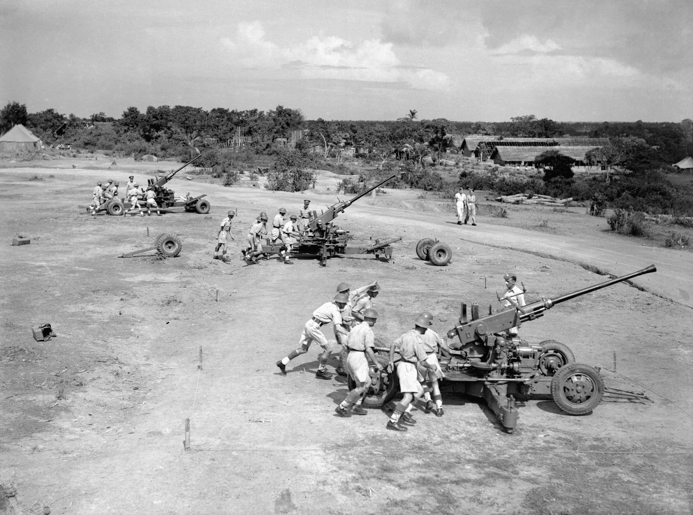 Royal Marines training with 40 mm Bofors guns at Chatham Camp, Colombo, Ceylon, September 1943. Marines at drill with three 40 mm Bofors guns at the Royal Marine Group Mobile Naval Base Defence Organisation Instructional Wing, Chatham Camp, Colombo, Ceylon.